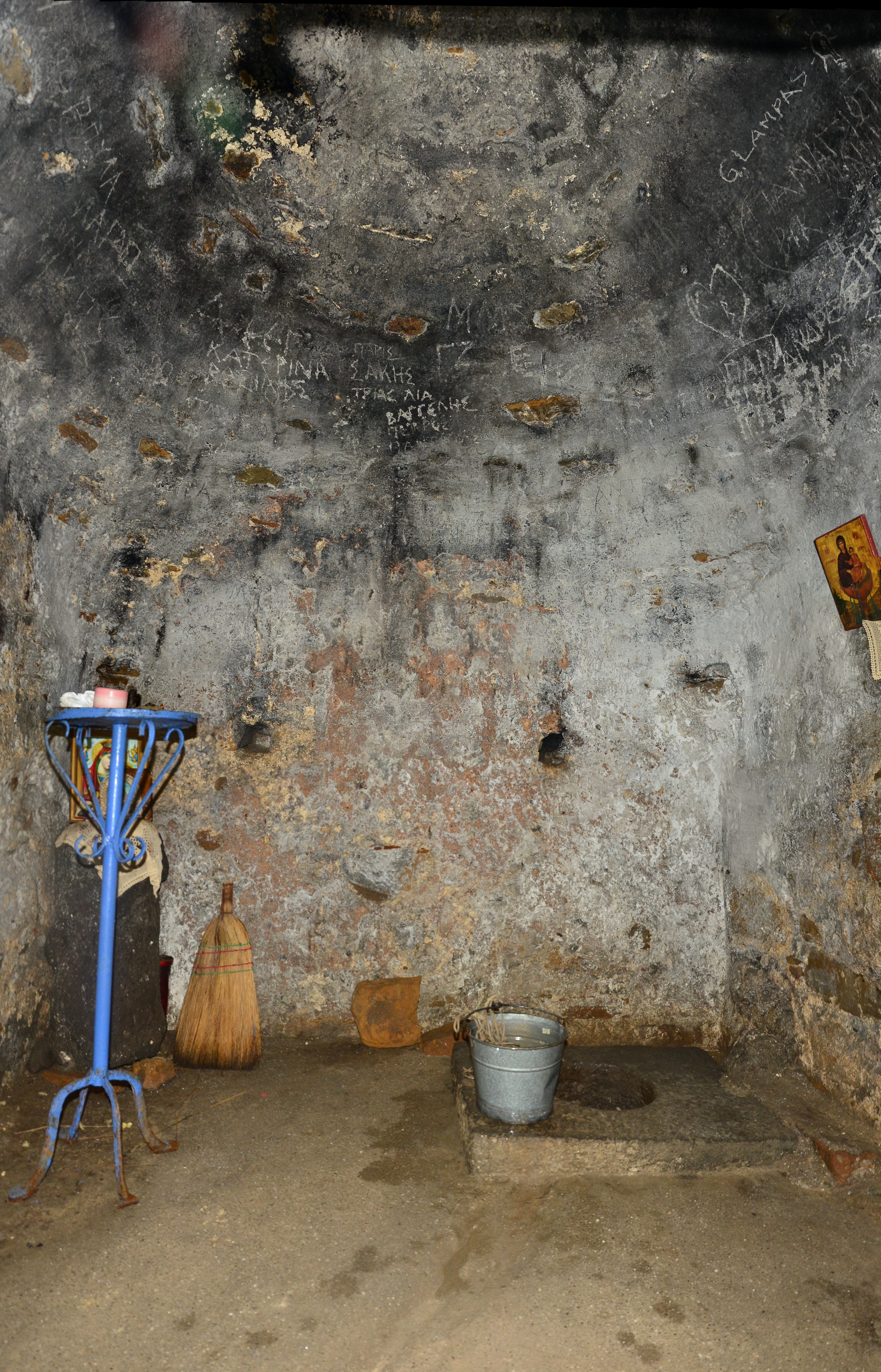 Zoodochos Pigi church, agiasma, Kotsinas, Lemnos, Greece